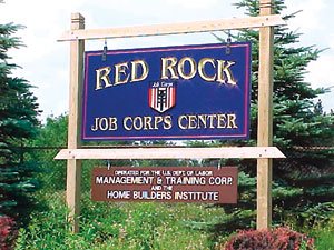 Entrance sign to the Red Rock Jobs Corps Center in Colley Township, Sullivan County, Pennsylvania